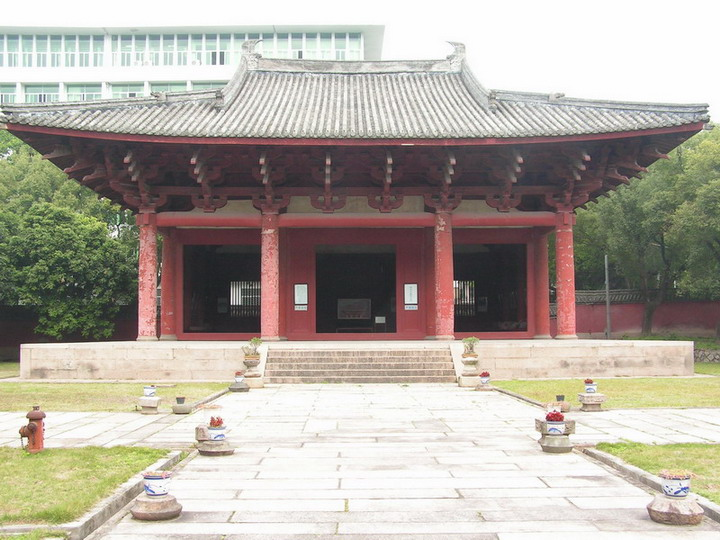 The main hall of Hualinsi Temple, Fuzhou, Fujian Province, China Mìng-dĕ̤ng-ngṳ̄: Huà-lìng-sê Duâi-dâing, diŏh Dṳ̆ng-guók Hók-gióng-sēng Hók-ciŭ-chê